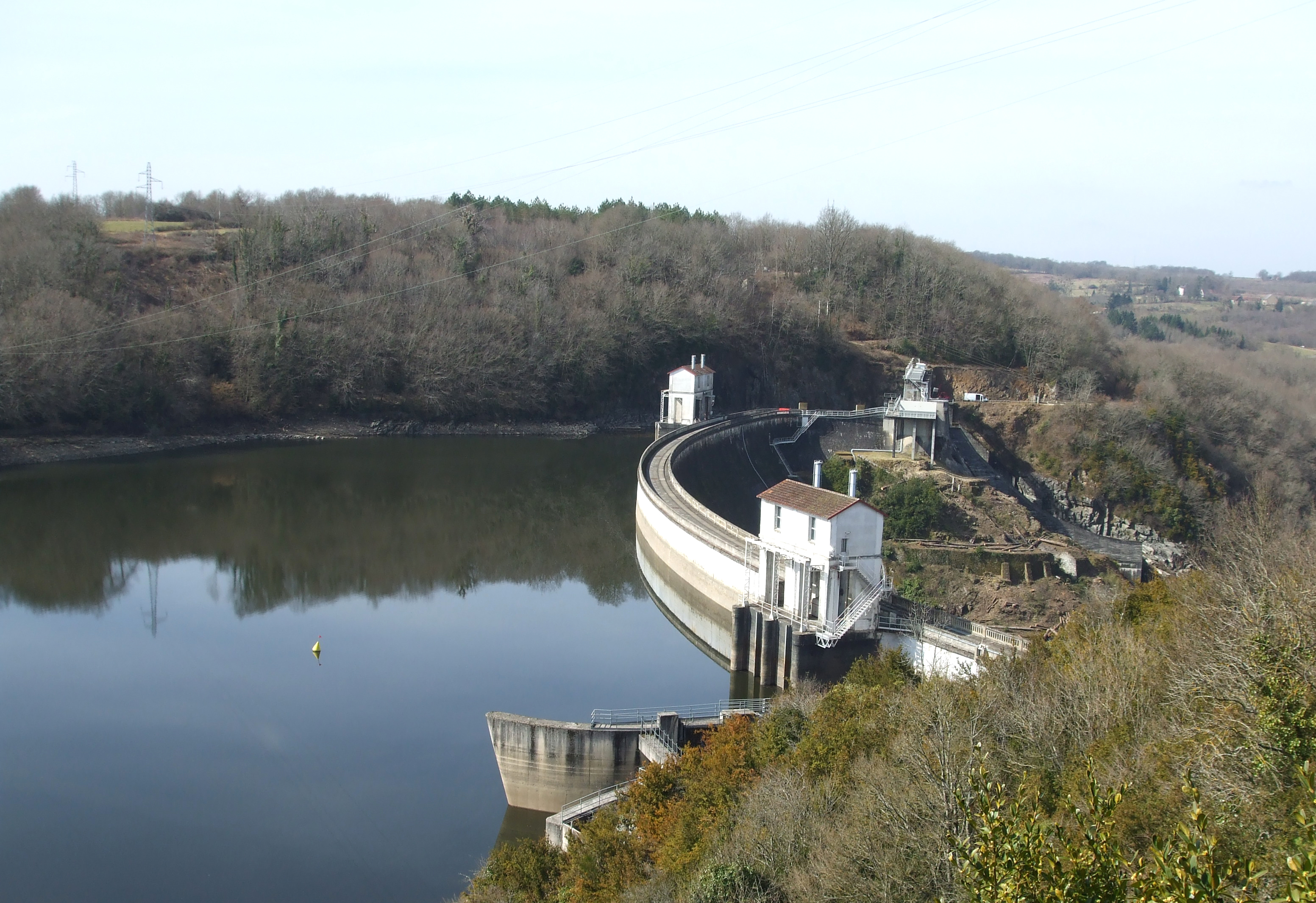 A view of the top of Eguzon Dam depuis la rive droite